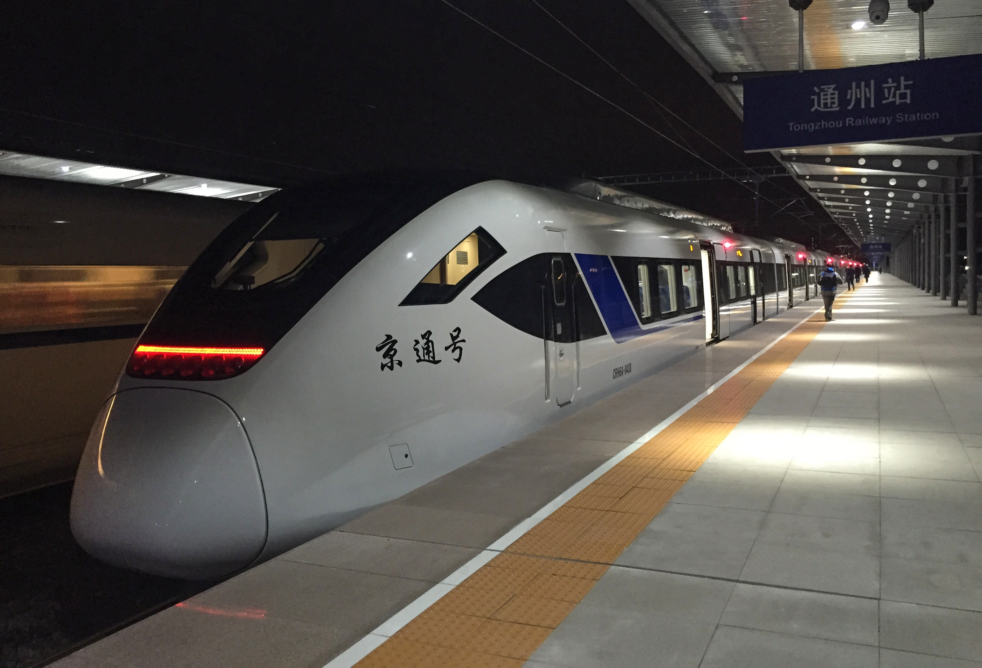 S104 to Beijing West, at Platform 1. A CRH2A is seen passing here...